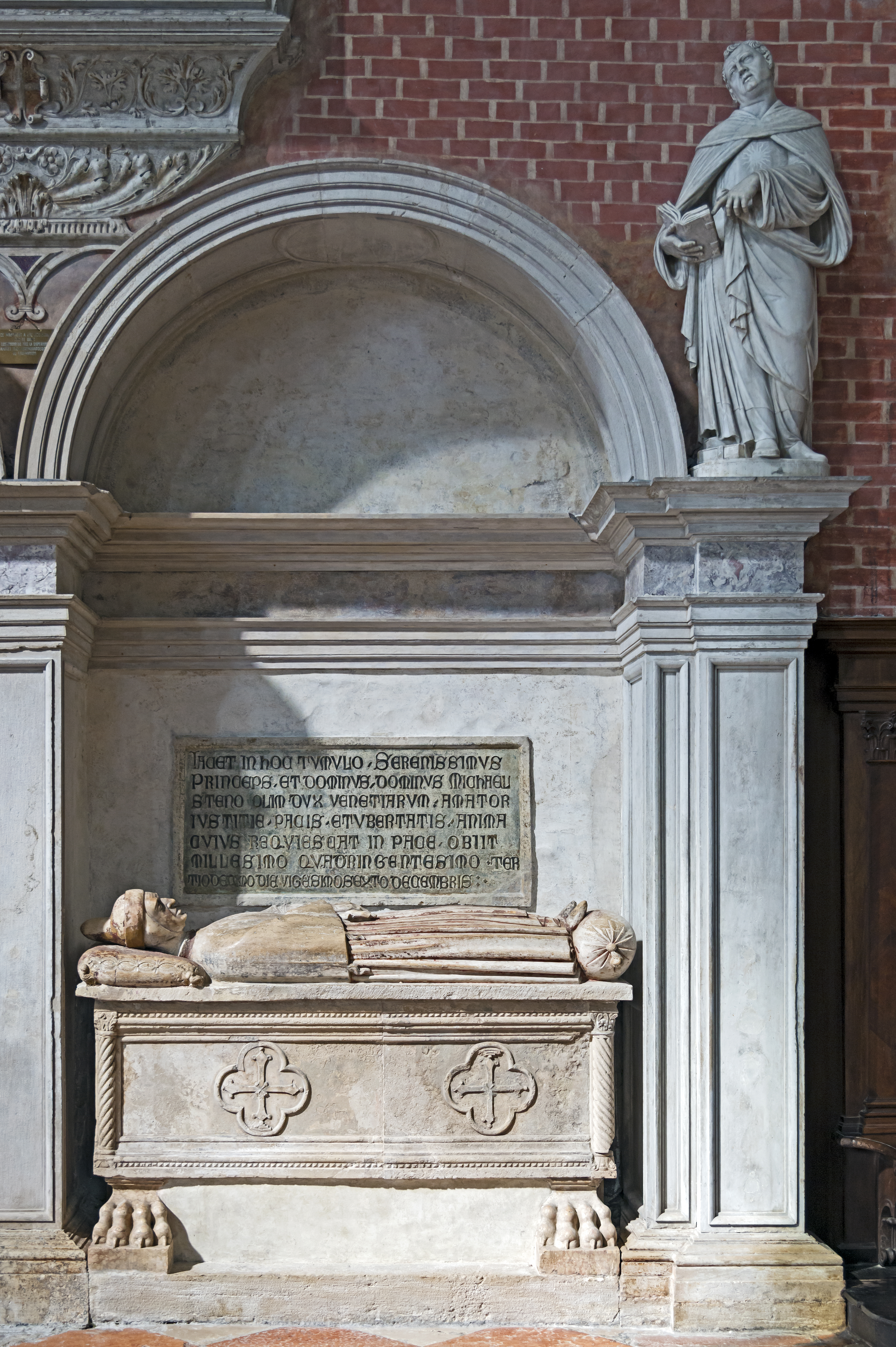 Santi Giovanni e Paolo in Venice - Monument of the Doge Michele Steno, with the statue of St. Thomas Aquinas.